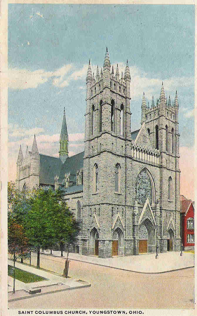 1916 postcard of St Columba Cathedral (Houngstown, OH)